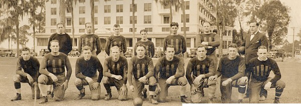 was a professional football team based in Winter Haven, Florida in 1926. While the team originated as a successful local team. However the team was taken over by members of the Tampa Cardinals, featuring Jim Thorpe, and later the Millville Big Blue, a pro club from Millville, New Jersey, when the teams played a series of exhibition games in the winter of 1926. This image of the team is well known and can be found in various books about early football.